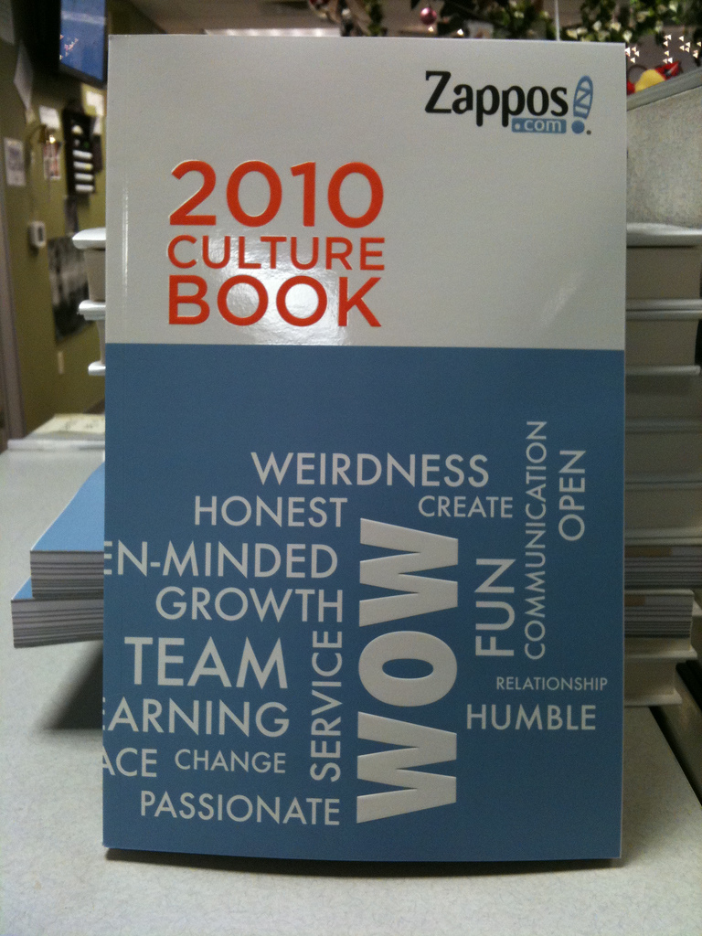 This is a picture of the Zappos 2010 Culture Book.